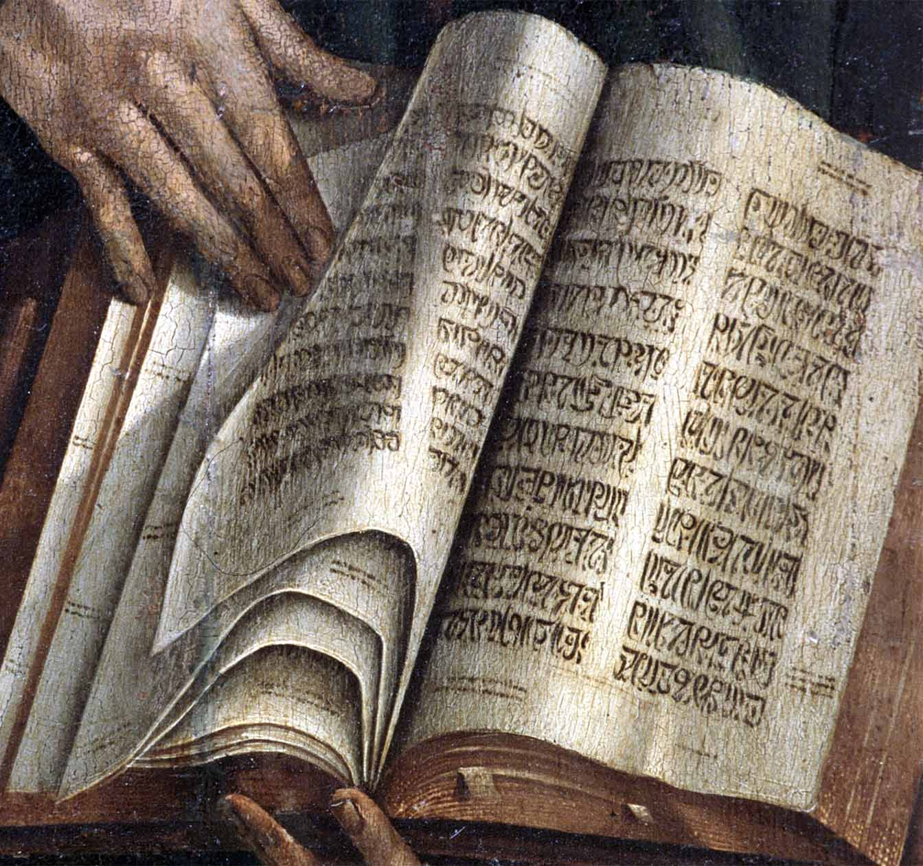 Detail of the book held open by the figure in Jewish-looking attire in the "Panel of the Relic" (sixth panel) of the St. Vincent panels attributed to Nuno Gonçalves (c.1465-70). The script is often assumed to be or meant to look like Hebrew. Some historians speculate it might be a passage from the Old Testament (specific conjectures suggest Isaiah 66: 15-19), but most historians consider it illegible, and probably intended to be illegible.